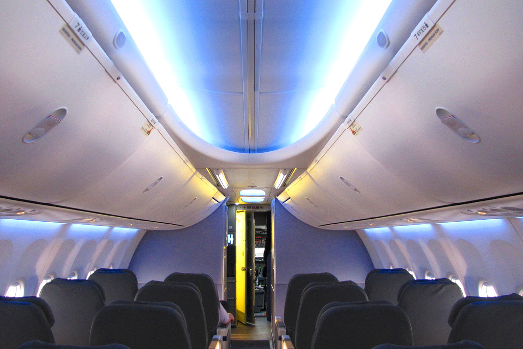 First Class cabin with the bins closed, lighting in "Boarding Mode"